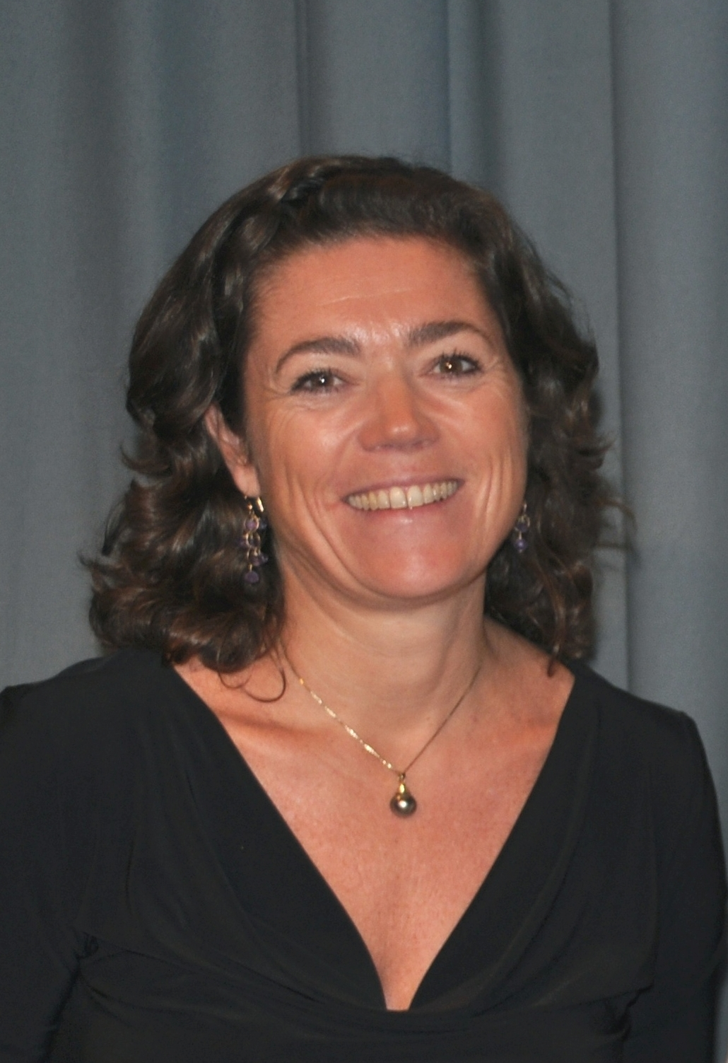 EVP Kristin Skogen Lund of Telenor. President of the Confederation of Norwegian Enterprise.